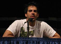 Eli Roth at a press conference